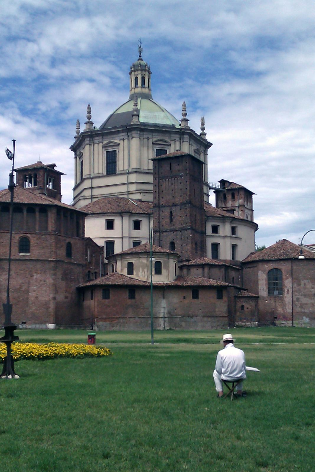 Parco delle Basiliche